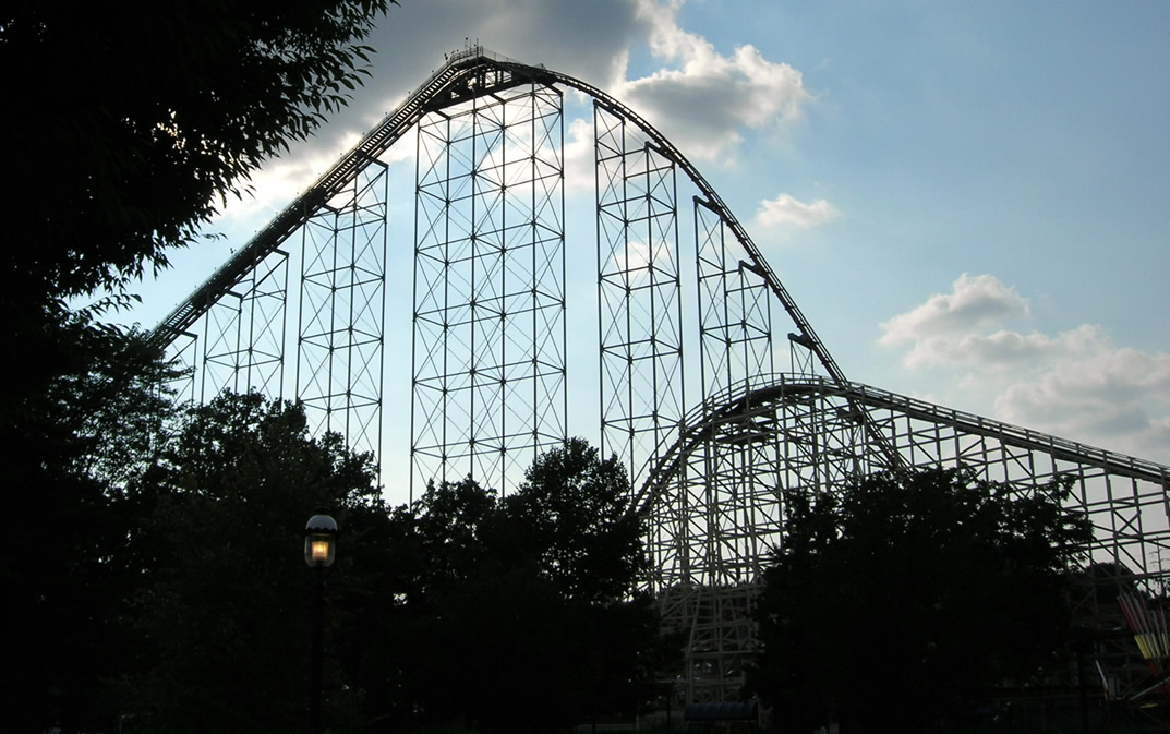 Steel Force and Thunderhawk at Dorney Park in Allentown, PA. Photo by Ryan Painter